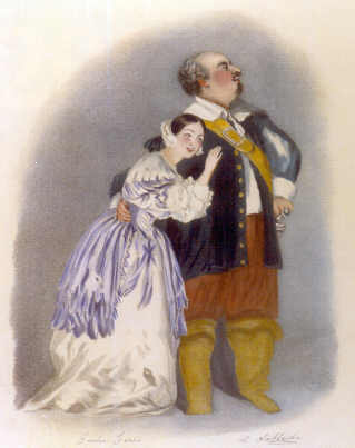 Grisi and Lablache in I puritani 1835 London